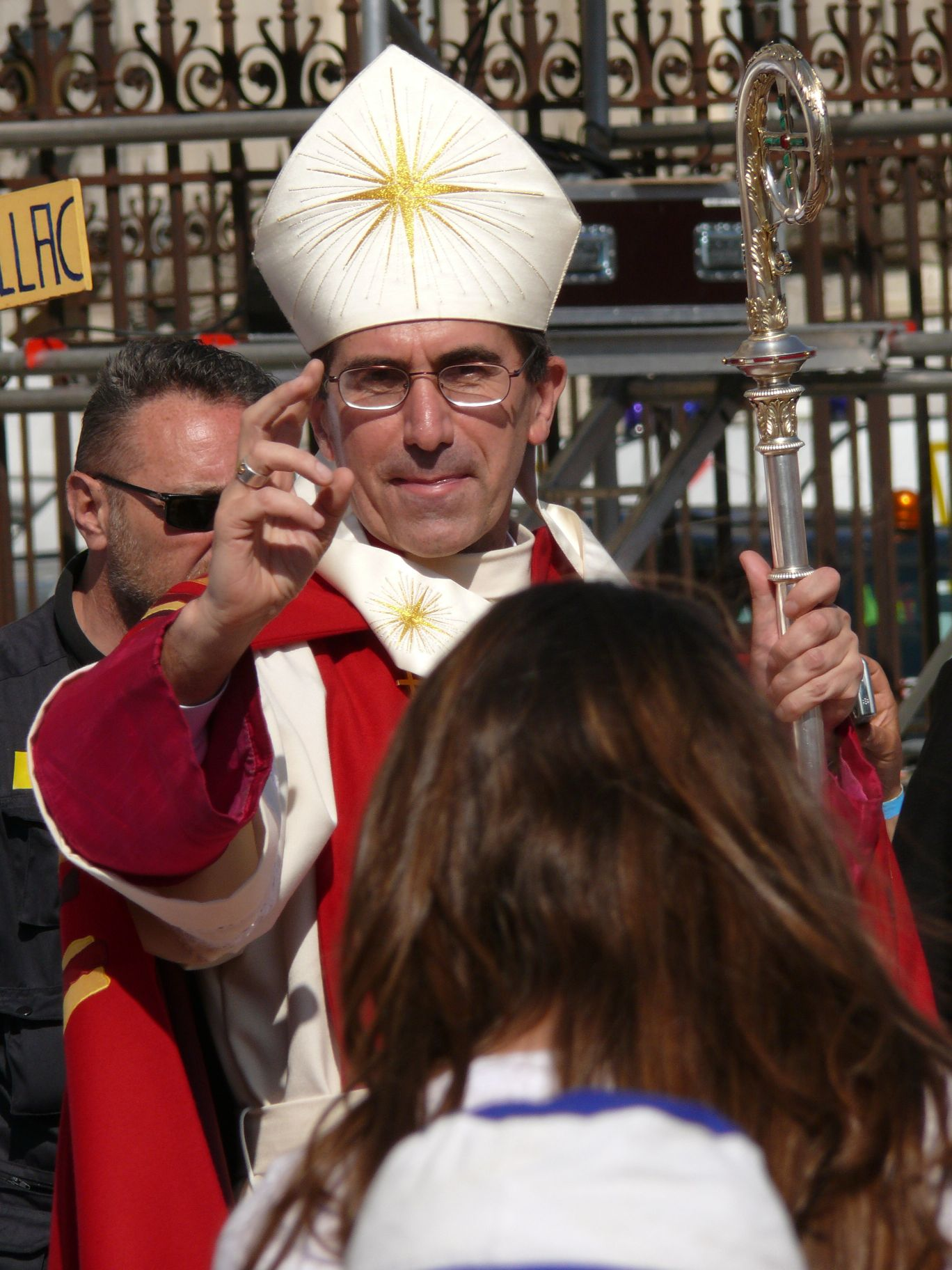 Michel Pansard, bishop of Chartres, in front of Our Lady's cathedral (Chartres, Eure-et-Loir, Centre, France).